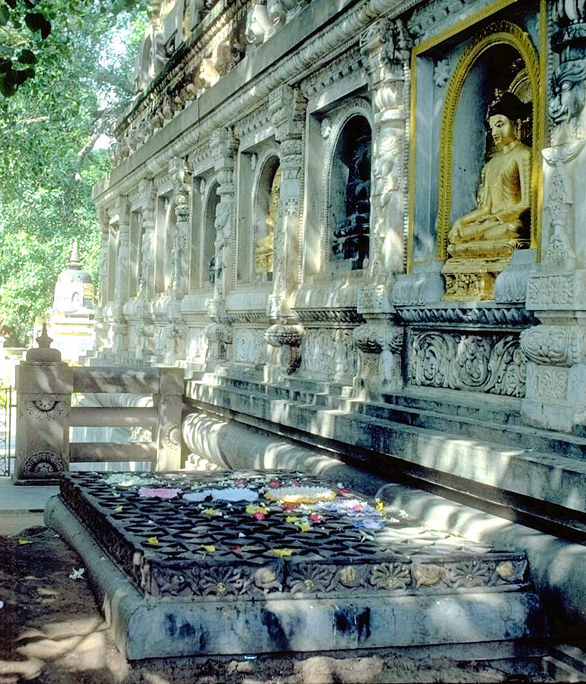 Vajrasana Diamond Throne of Ashoka at Bodh Gaya